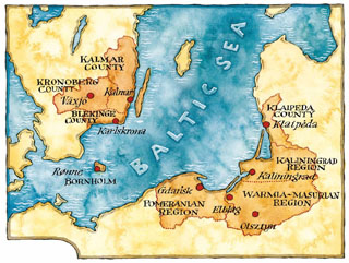 Euroregion Baltic does not restrict the right to publish its emblem or map since it has no legal entity. Euroregion Baltic welcomes the idea of publishing the map of ERB member regions in a Wikipedia article about the ERB as it helps to promote its activities.